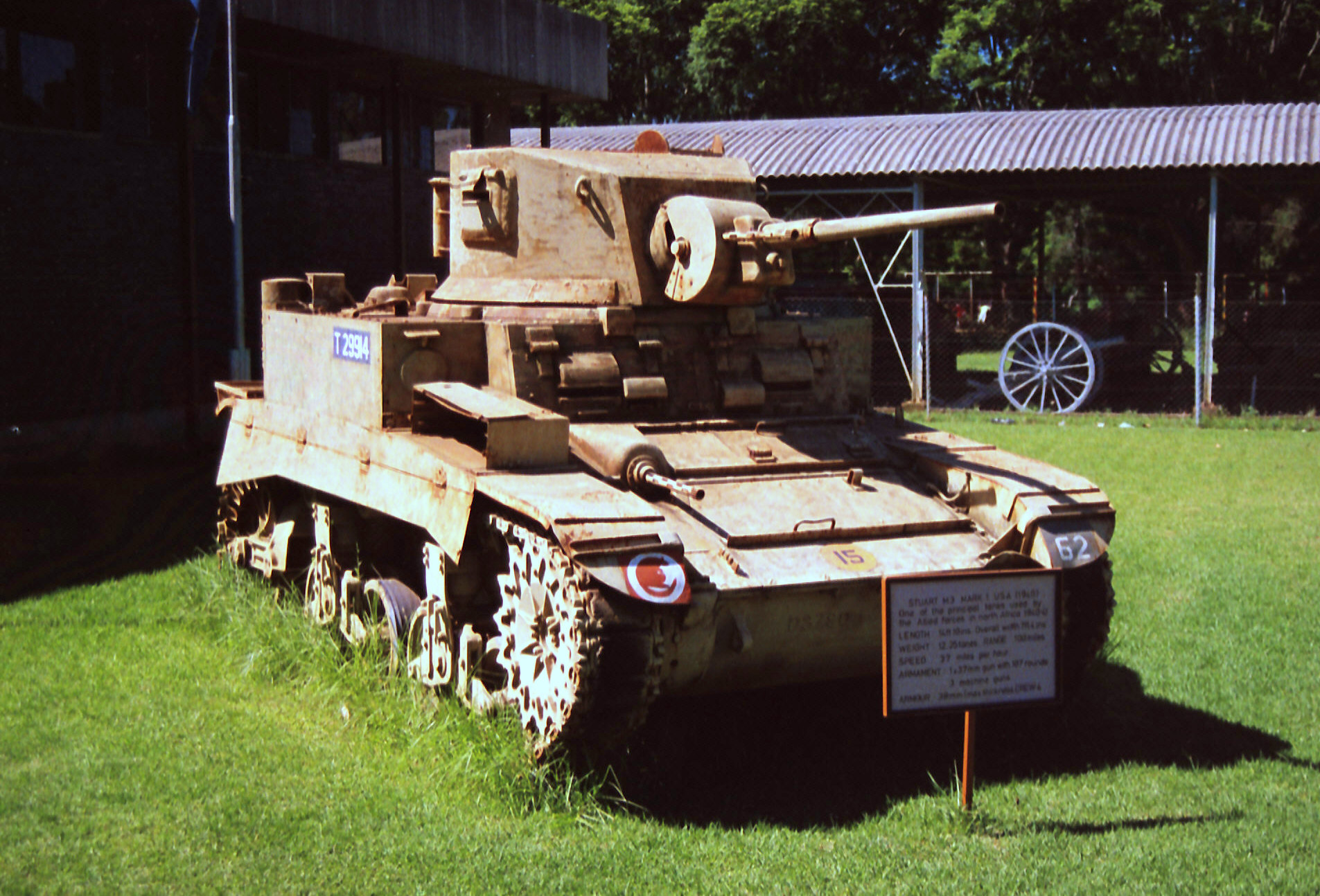 Stuart M3A1 tank. (Despite the sign, this is an M3A1, so probably a Mk III or Mk IV.)